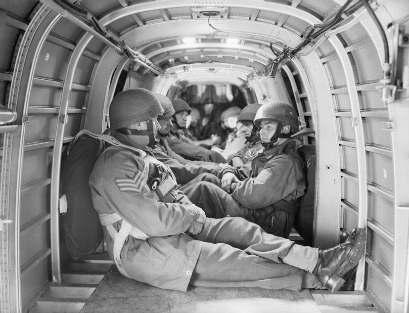 Paratroopers inside the fuselage of a Whitley aircraft at RAF Ringway.